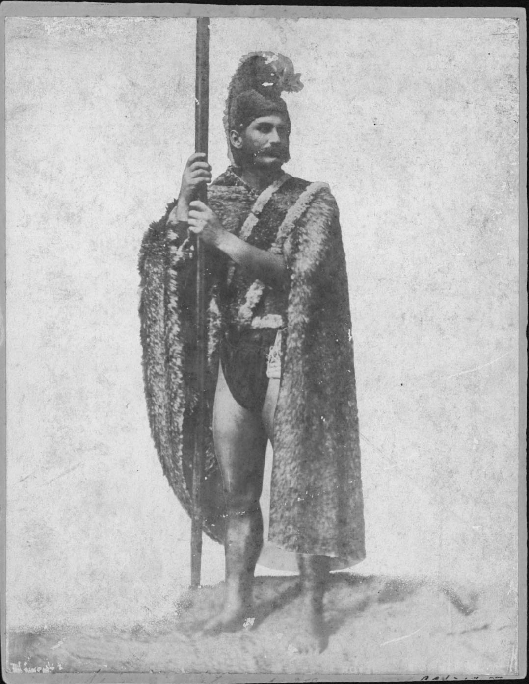 Portrait of John Baker Modeling as Kamehameha in Royal Feather Robe, Helmet, and Breechcloth and Holding Lance, unknown date. He and his brother Robert Hoapili served as models for the Kamehameha Statue by Thomas Ridgeway Gould. This is believed by Jacob Adler to be a composite image with the legs belonging to a Hawaiian fisherman, although Jean Charlot claimed the legs belong to Robert Hoapili Baker. According to the contemporary writings of Walter M. Gibson, "[t]he artist has copied closely the fine physique of [Robert] Hoapili [Baker]...and it presents a noble illustration and a correct type of superior Hawaiian manhood". References: Adler, Jacob (1969). "Kamehameha Statue". The Hawaiian Journal of History 3: 203–212. Honolulu: Hawaiian Historical Society. Charlot, Jean (July 1969) Letter To Jacob Adler On The Statue Of Kamehameha By Thomas R. Gould, Jean Charlot Foundation Dekneef, Matthew (June 10, 2016). "Two Hawaiian Brothers Who Modeled For The Iconic Kamehameha Statue". Hawaiʻi Magazine. Retrieved on November 15, 2016. Rose, Roger G. (1988). "Woodcarver F. N. Otremba and the Kamehameha Statue". The Hawaiian Journal of History 22: 131–146. Honolulu: Hawaiian Historical Society.